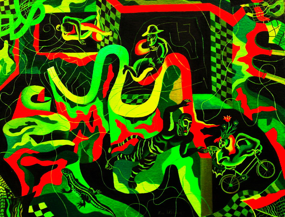 Painting by Nina Tokhtaman Valetova.